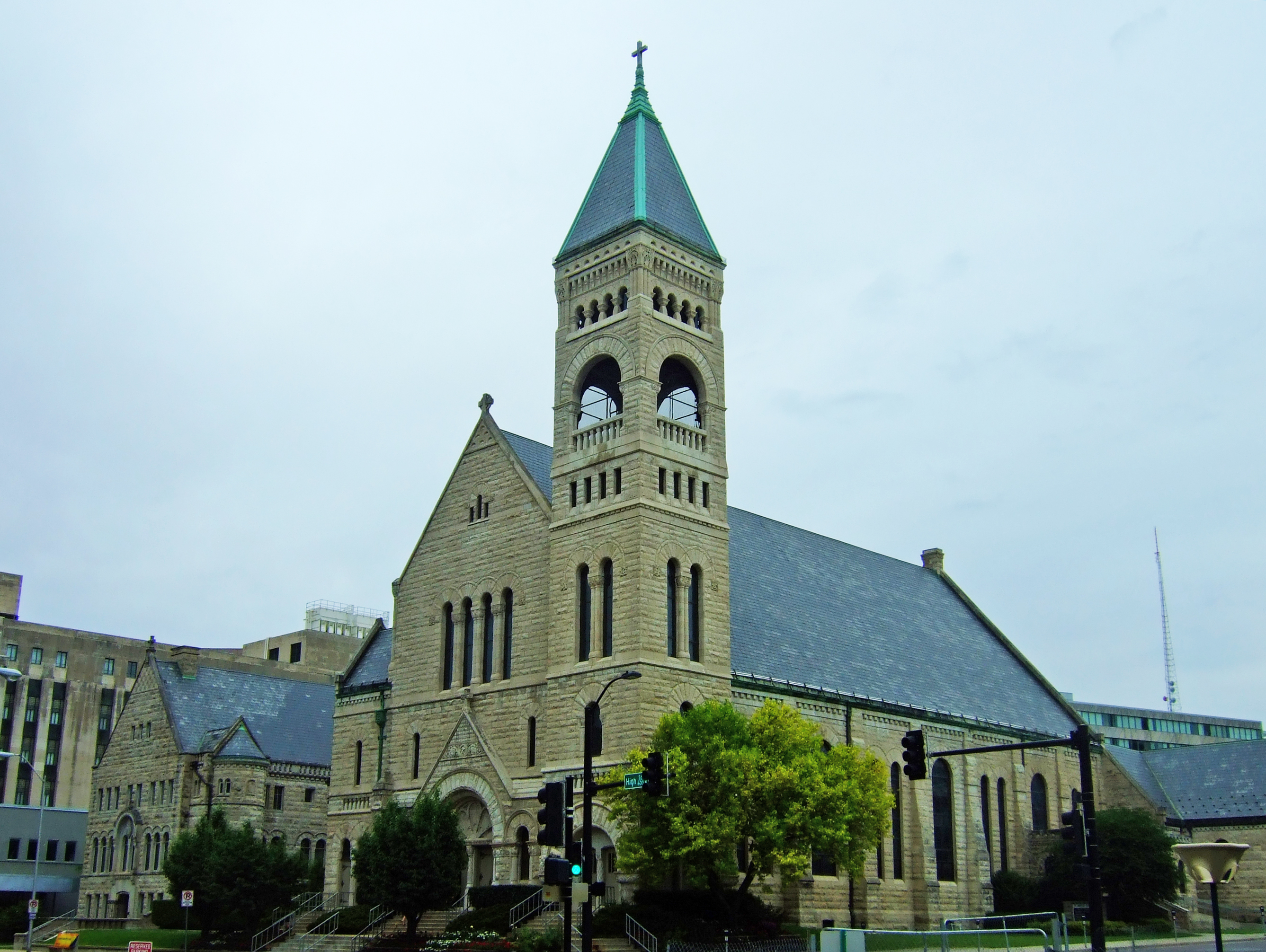 St. Ambrose Cathedral at 607 High Street in Des Moines, Iowa. Added to the National Register of Historic Places in 1979.